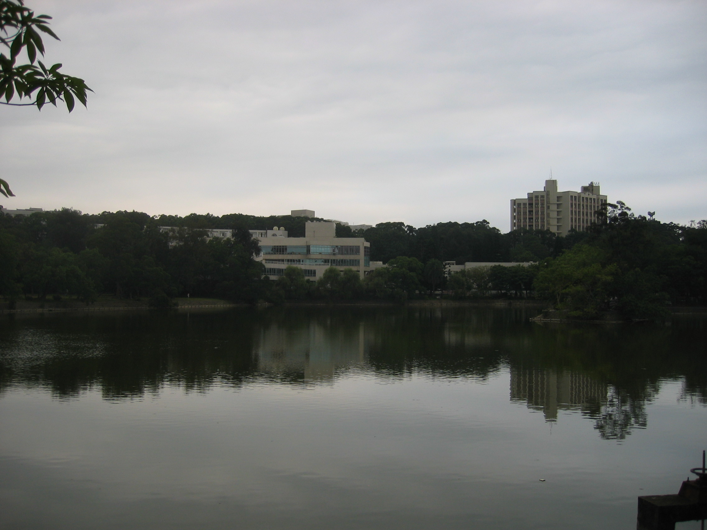 Cheng Kung Lake, National Tsing Hua University.